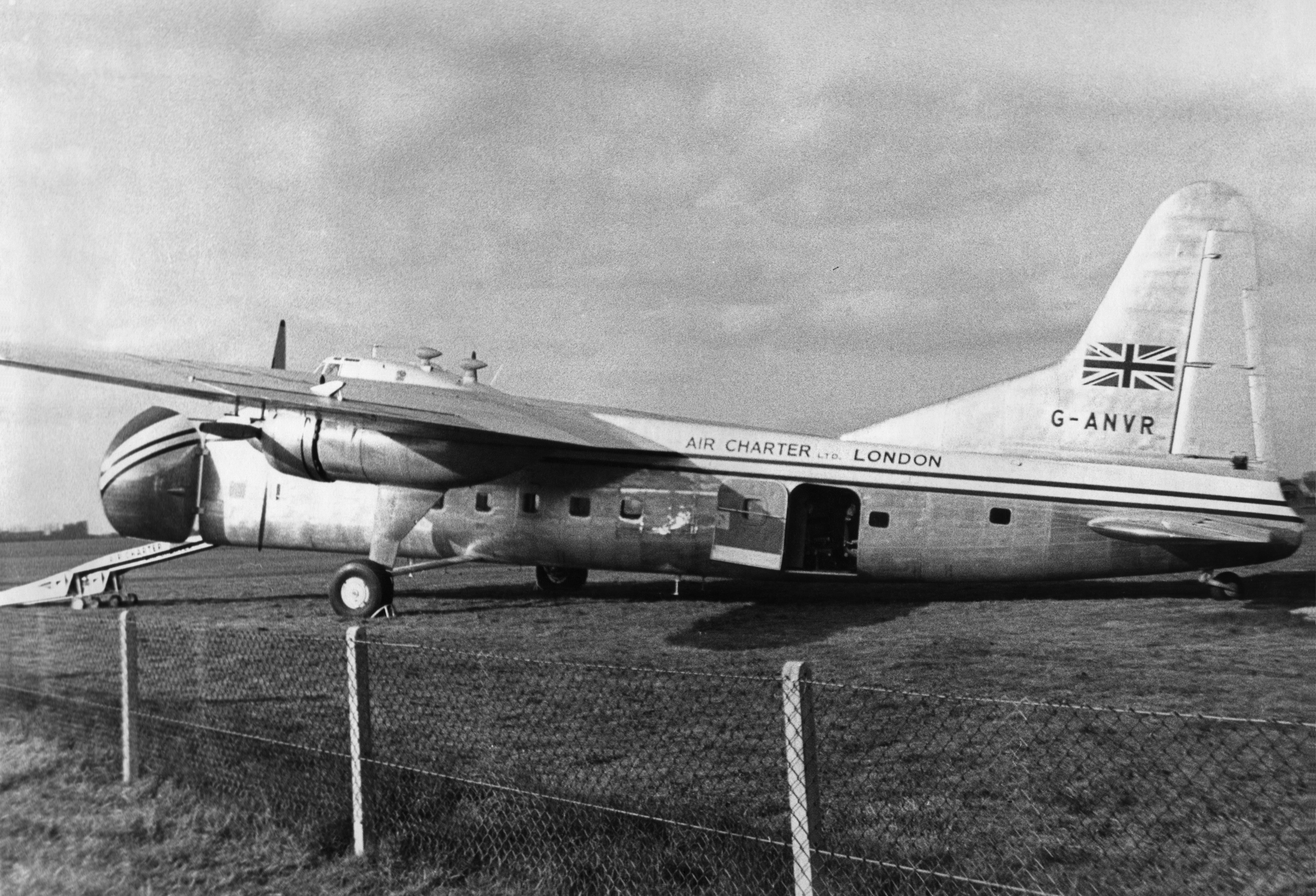 G-ANVR was leased from its maker by Air Charter in Mar 1955 for operations on the airline’s new cross-Channel Southend-Calais car ferry service. After delivery it was displayed outside the public enclosure with doors open and ramps in place to advertise the service locally. In those days, the metre-high wire mesh fence in the foreground was all that was thought necessary to separate the public from the aircraft. Named Valiant, G-ANVR was finally bought by Air Charter in 1957 and remained with them and successor companies Channel Air Bridge, British United Air Ferries and British Air Ferries until Mar 1971, when it was sold to Midland Air Cargo. It was withdrawn from use and stored at Baginton, Coventry, in Jan 1973 and broken-up there in Mar 1974. Photo: Richard John Goring (Transportraits)